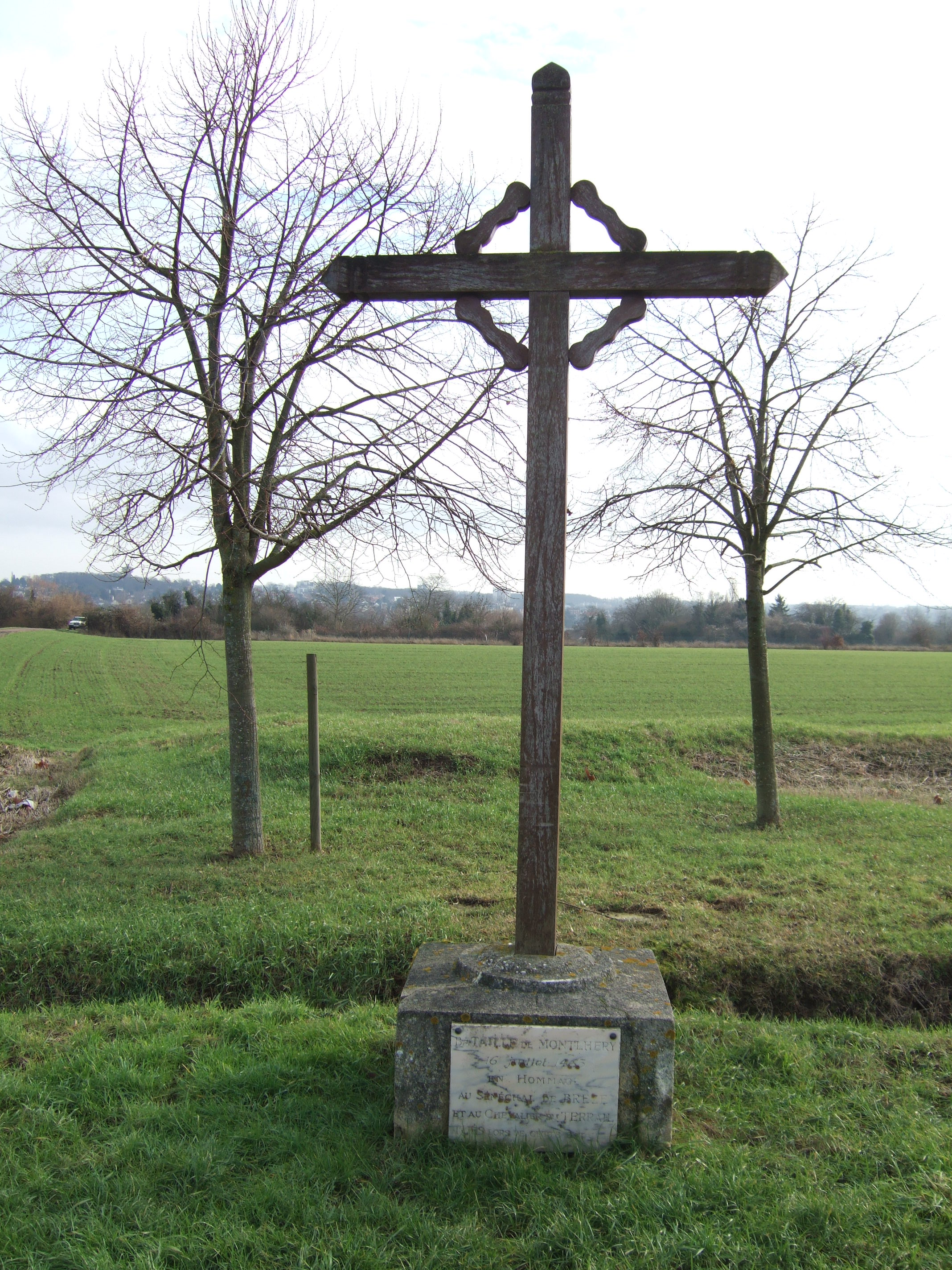 Battle Cross in Longpont-sur-Orge (near Montlhéry, France)